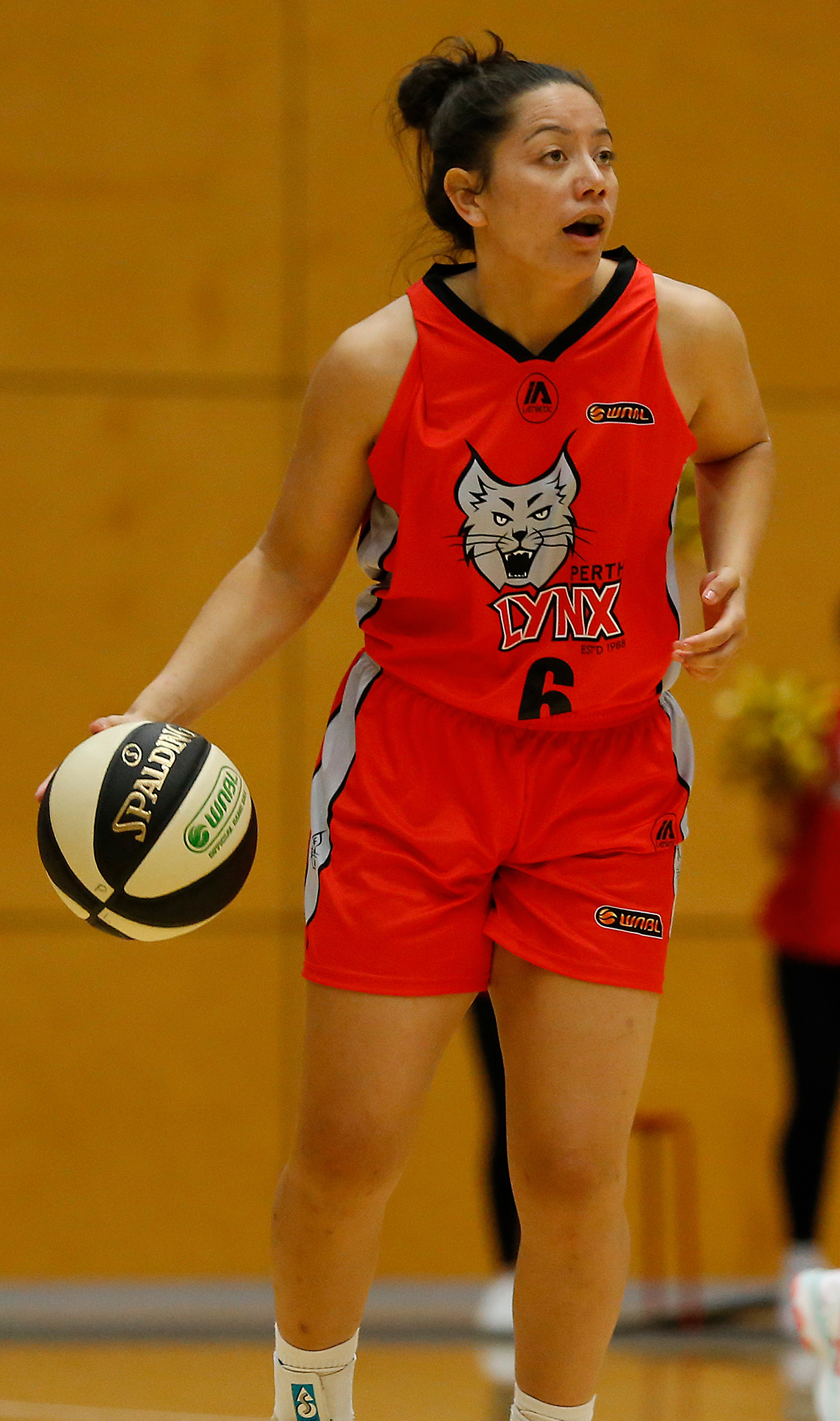 Mikayla Pirini in action for the Perth Lynx.